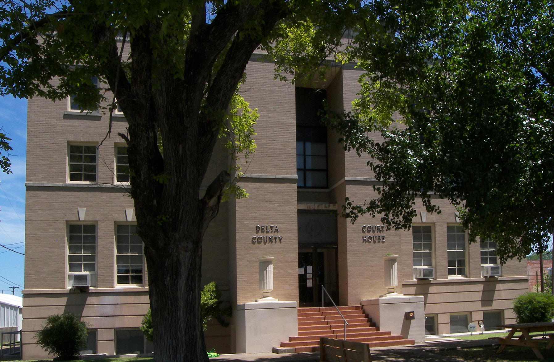 The Delta County Courthouse located in Cooper, Texas, United States.